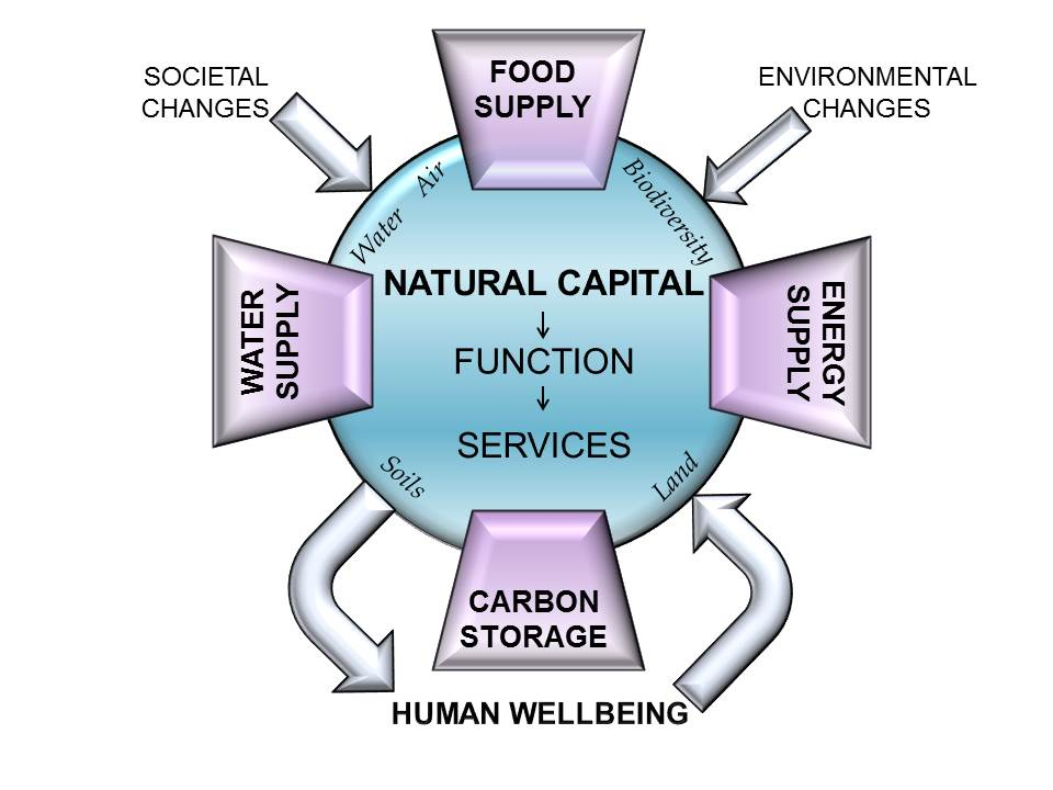 Simplified graphic showing the significance of Natural Capital, which can be seen as providing essential functions and ecosystem services. These underpin and sustain all of the key global issues facing society, such as food supply, water supply, meeting energy needs and capturing carbon to reduce impacts of climate change